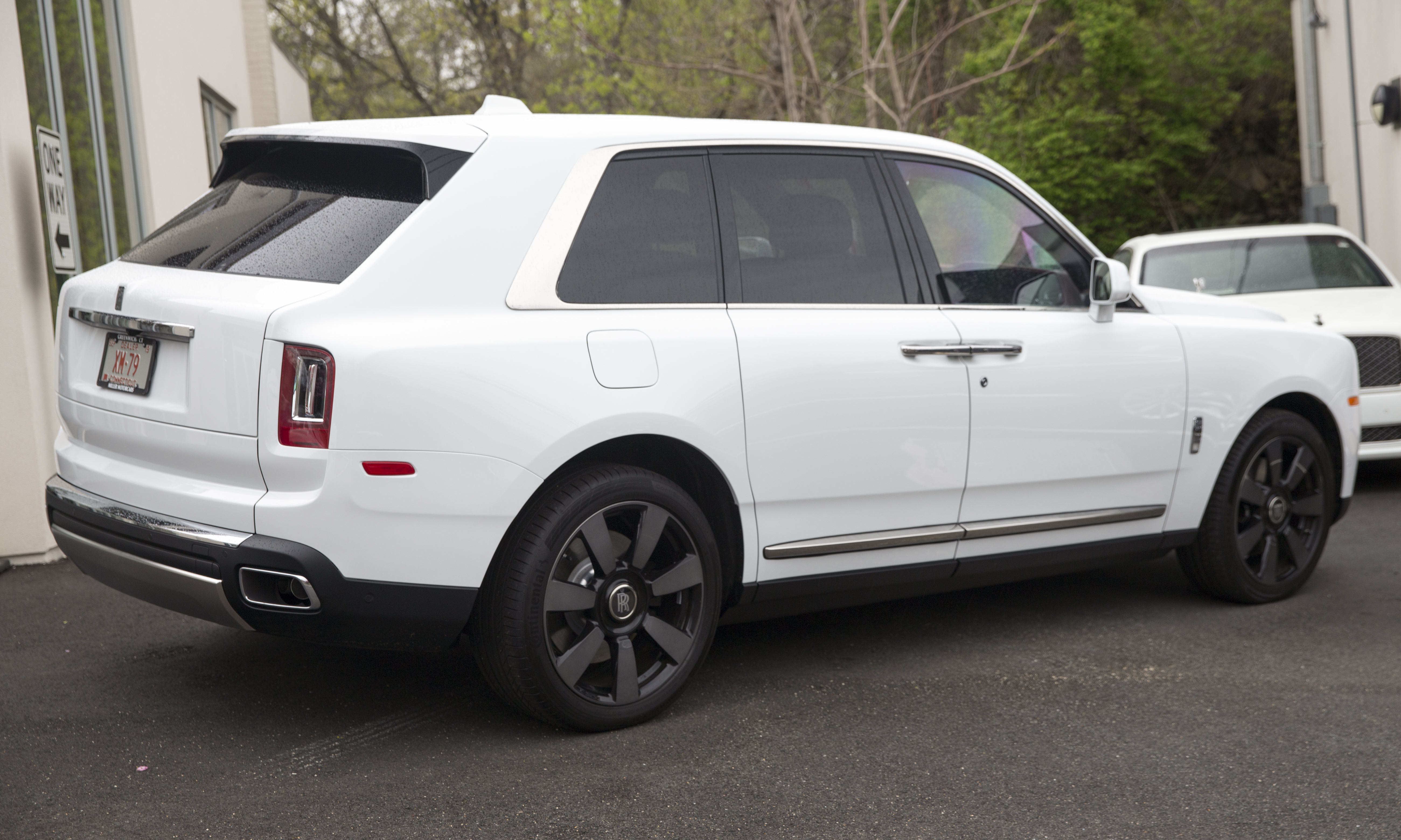 A 2019 Rolls-Royce Cullinan in Artic (spelling as per seller's website) White with Mugello Red interior, blocking out what little sun there was this day.